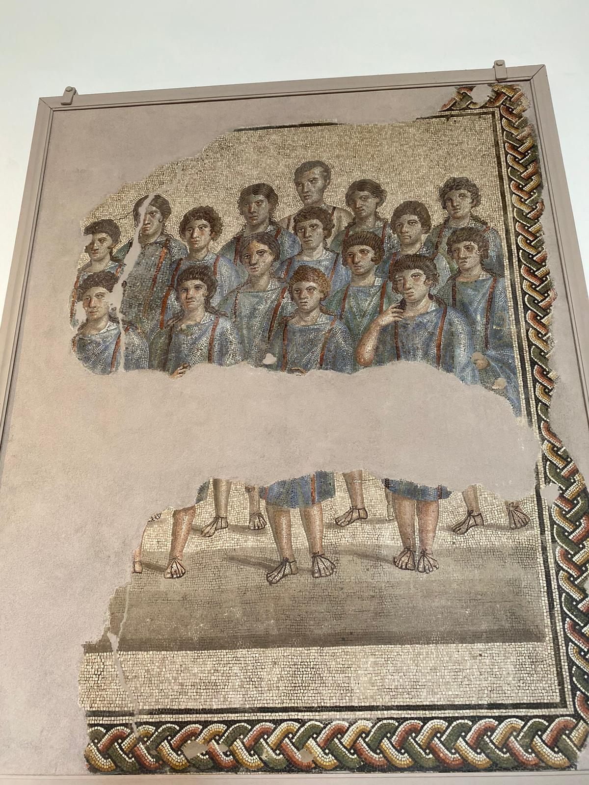 roman mosaic, museo campano, capua, italy